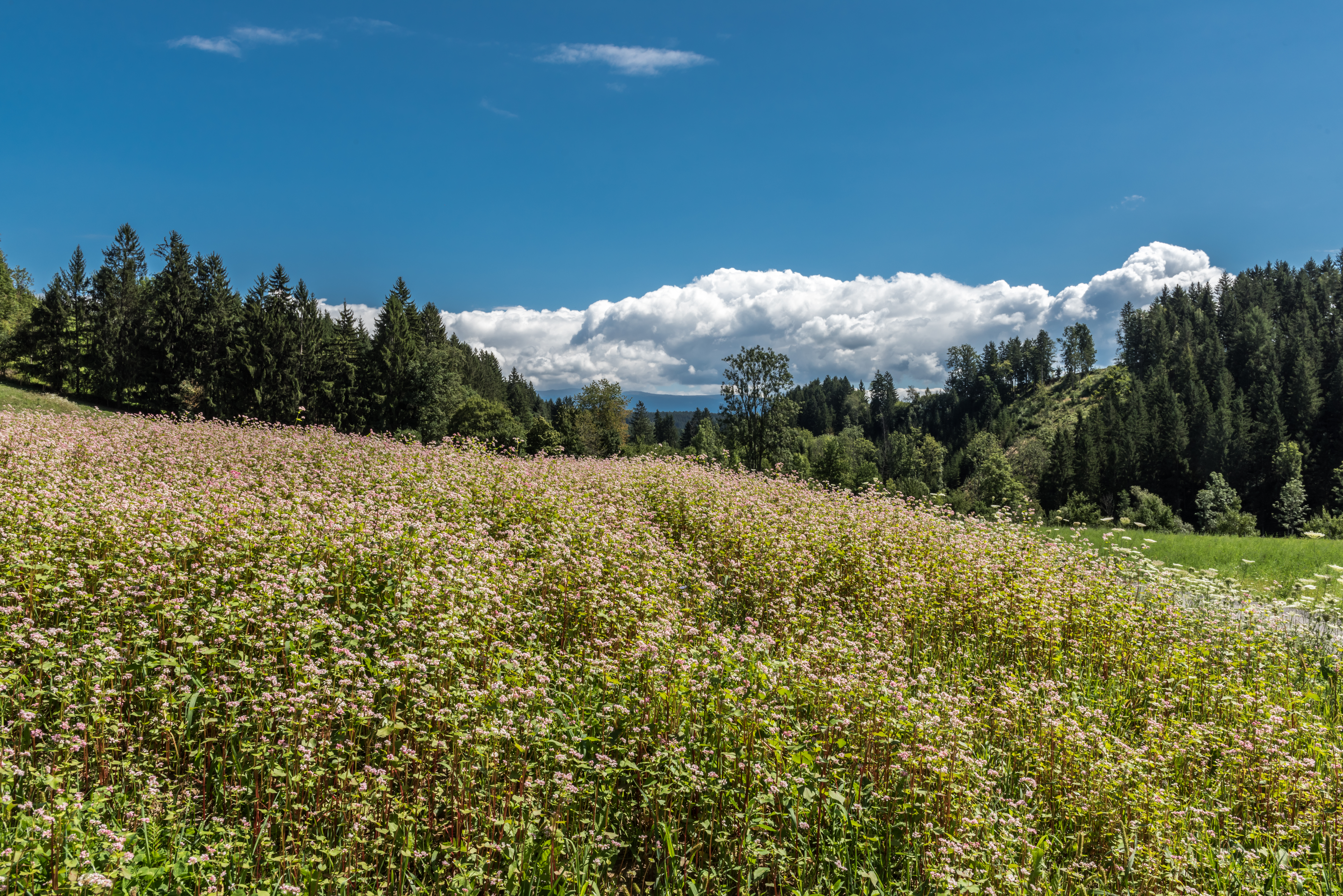 Buckwheat field in Pfannhof, municipality Frauenstein, district Sankt Veit an der Glan, Carinthia, Austria, EU